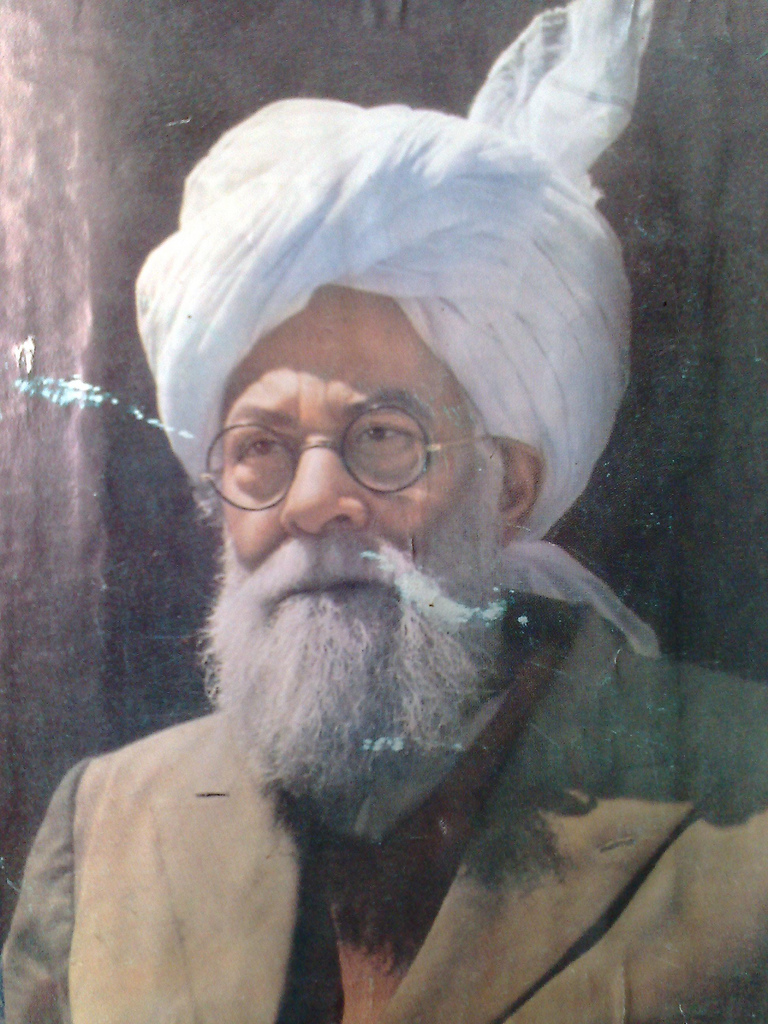 Mirza Mahmood Ahmad, Khaybar Lodge. (1954)